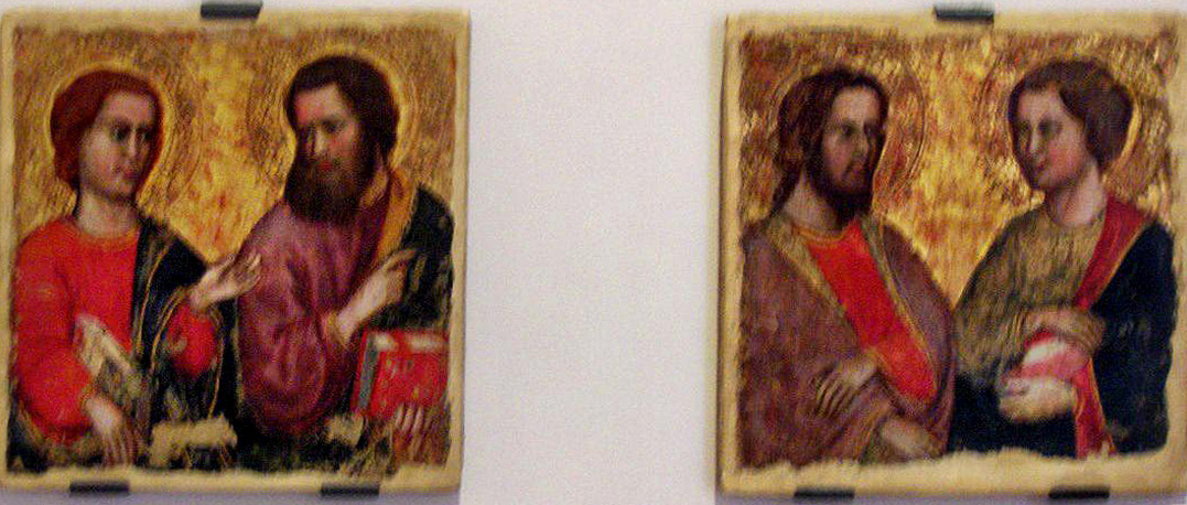 Four Apostles by Serafino de'Serafini (active 1349-1393)